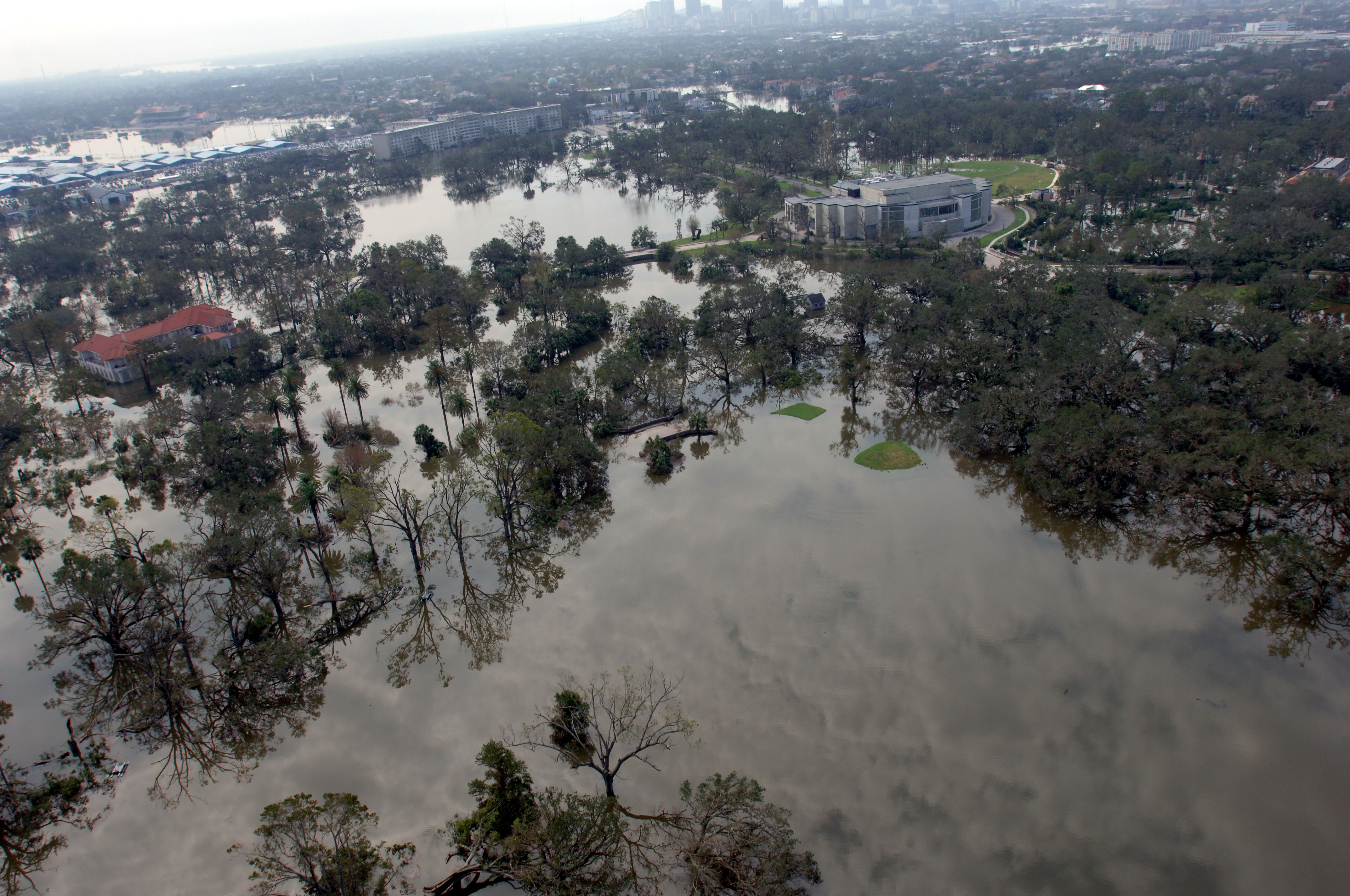 New Orleans, La., August 29, 2005 -- Aerial of a flooded neighborhood with the city in the background. New Orleans is being evacuated as a result of floods from hurricane Katrina. Thousand of people have been rescued from the flood waters by moving to their roofs and attics. Aerial view from above City Park. New Orleans Museum of Art is at center right. New Orleans Fairgrounds can be seen in distance at top right. Photo by Jocelyn Augustino/FEMA